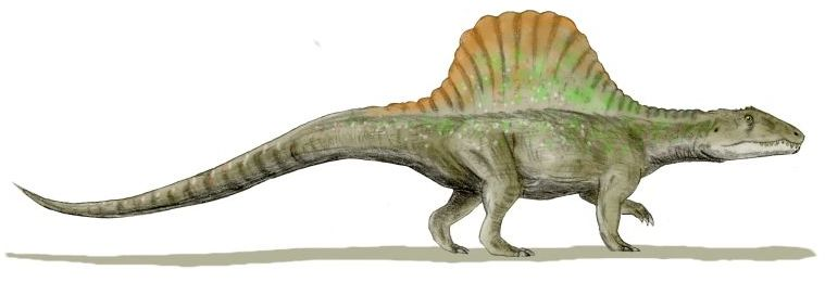 Arizonasaurus babbitti, a rauisuchian from the Late Triassic of Arizona, after S.J. Nesbitt,2003, pencil drawing